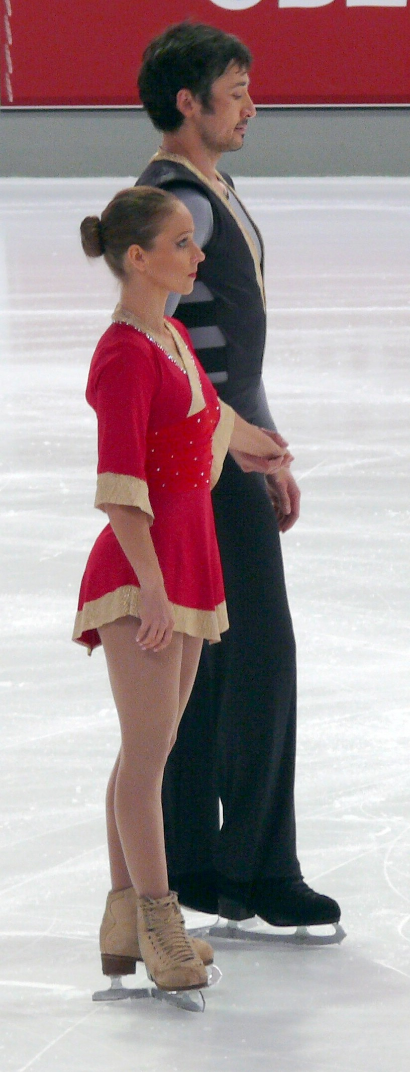 Olga Bestandigova and Ilhan Mansiz (TUR) at the Nebelhorn Trophy in Oberstdorf / Bavaria / Germany.